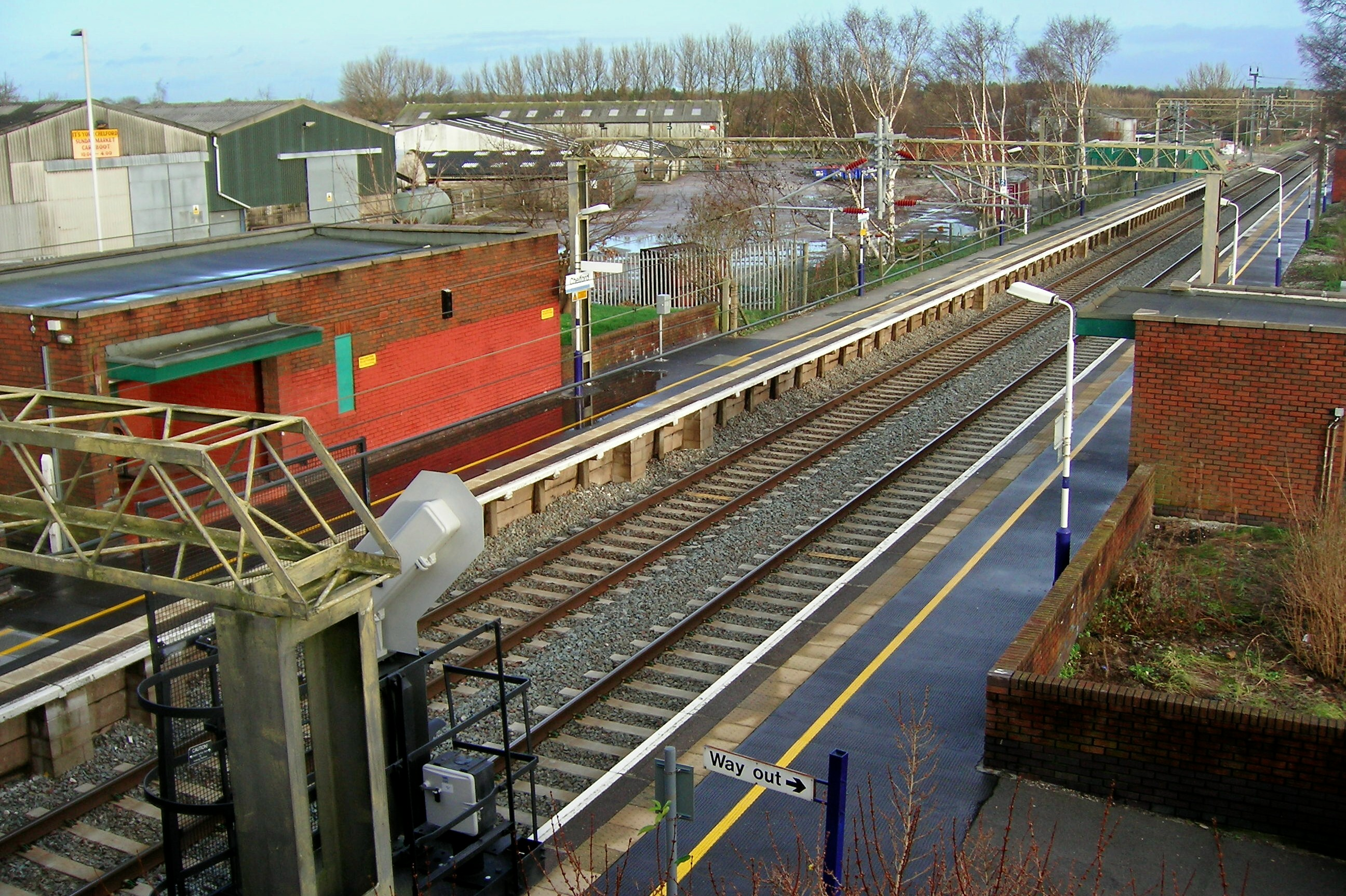 Chelford railway station. View looking north from the A537's bridge over the line